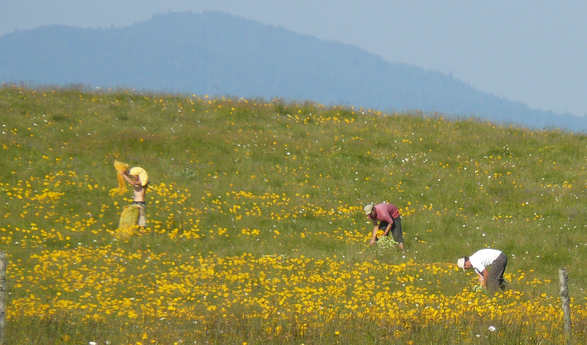 Arnica montana's productors in Markstein (Vosges's montains, Alsace, France) July 2008